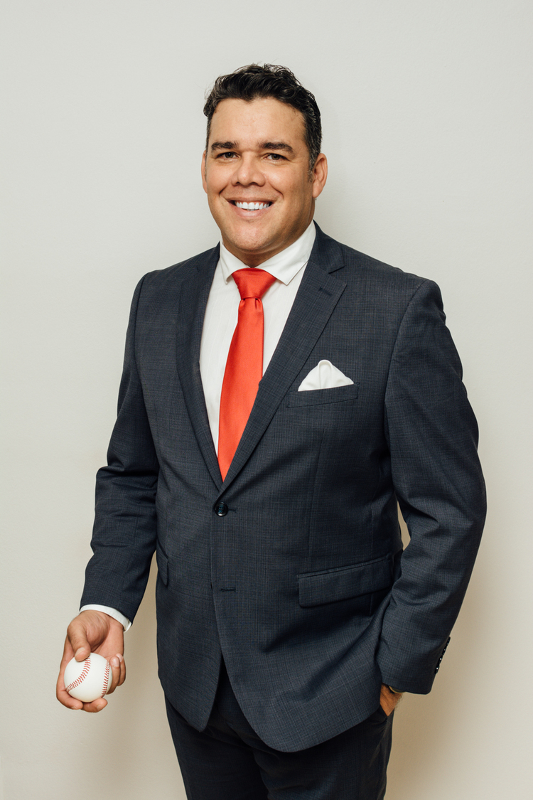 Creative and Art Director experienced in creating graphic lines and brand communication. Believe in teamwork and own the skills necessary to lead a creative team with strength and inspiration, while encouraged with my passion for developing brands and concepts defined. Always with fresh ideas and goals for improvement in constant renovation. Excellent customer relation and management.